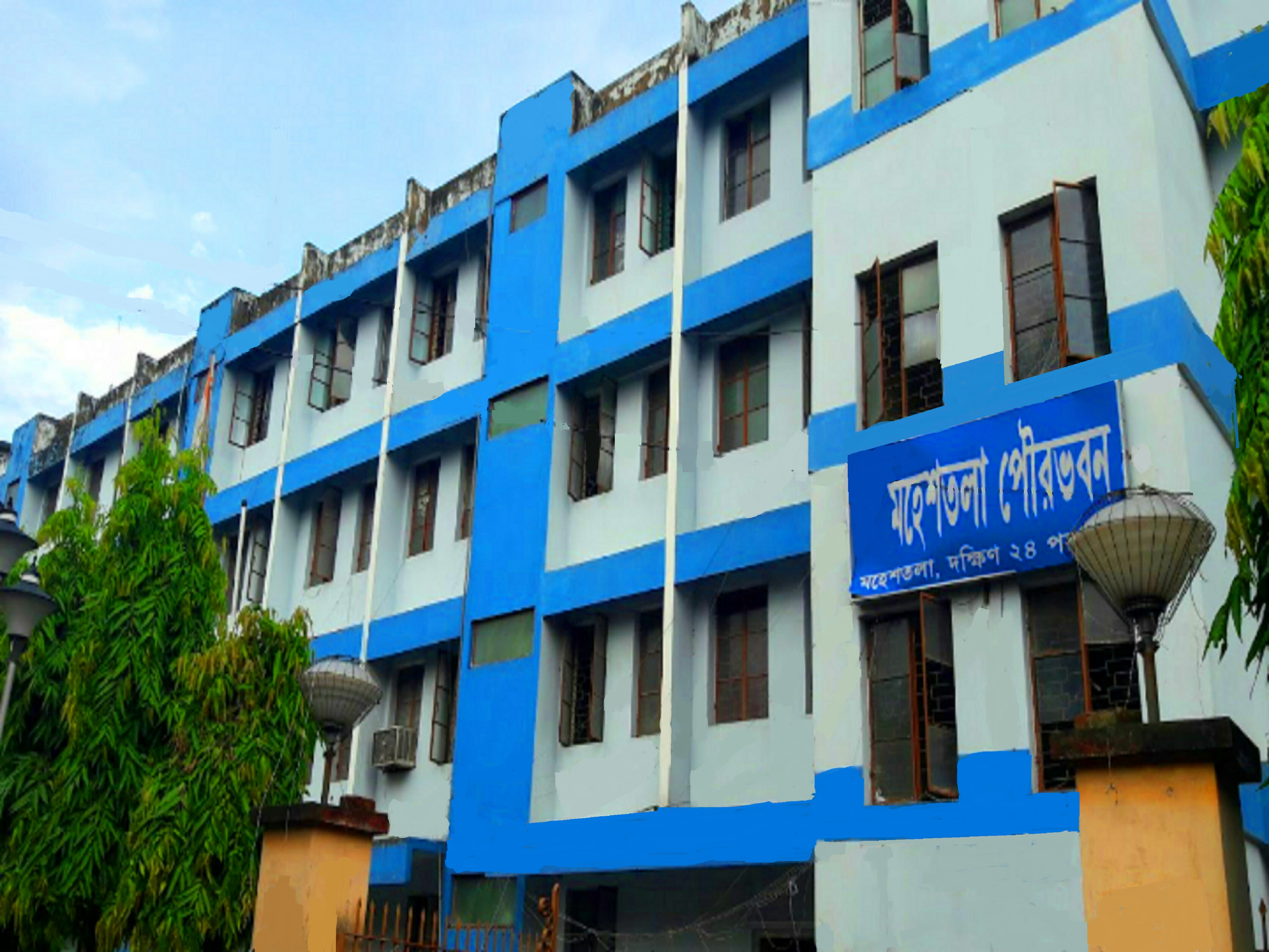 Building of the Maheshtala Municipal Corporation